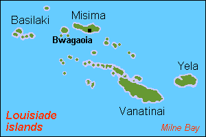 Map (rough) of Louisiade islands, Papua New Guinea, own work composed from various mapreferences